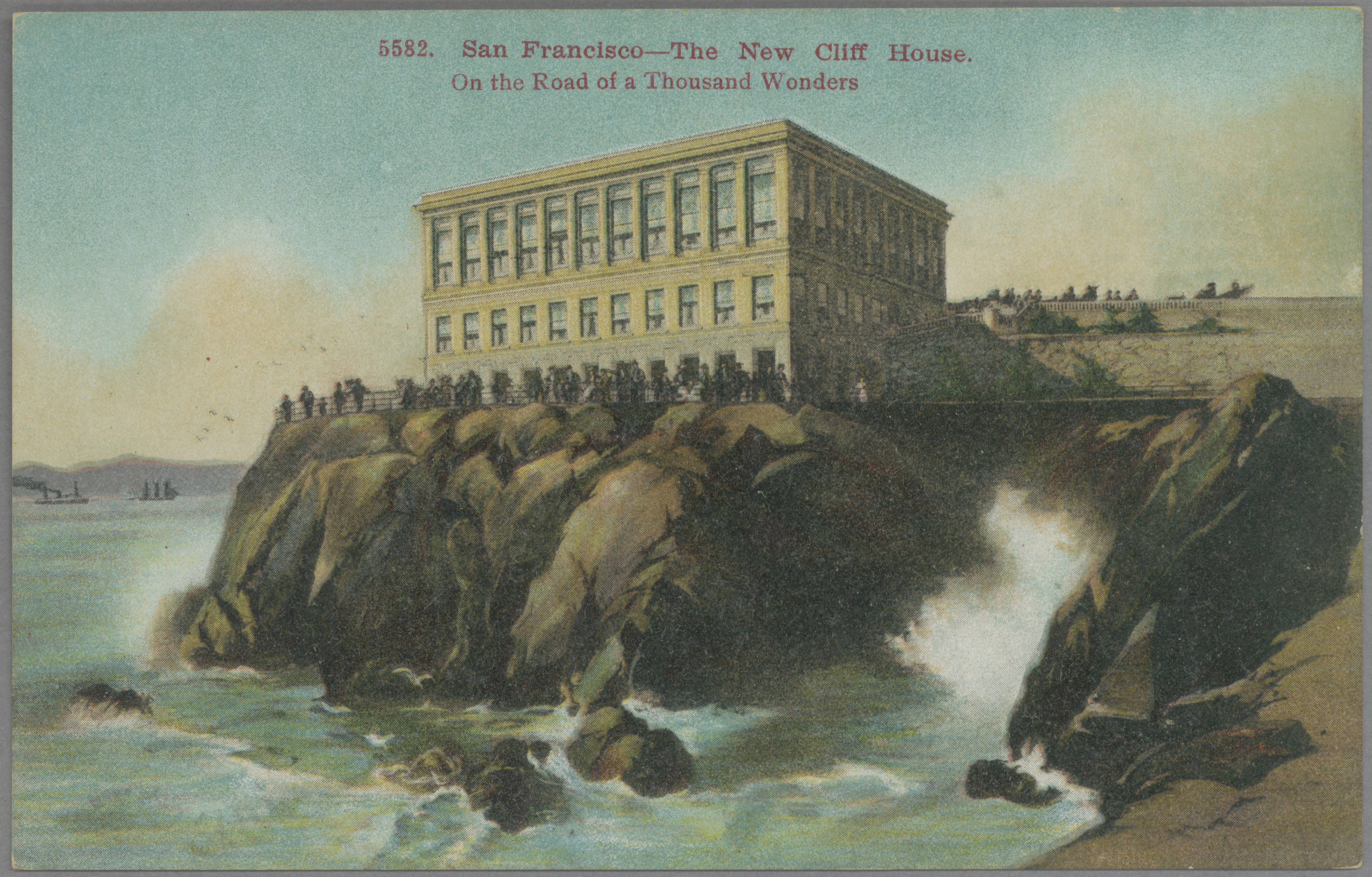 San Francisco -- The New Cliff House. On the Road of a Thousand Wonders Postcard of San Francisco -- The New Cliff House. On the Road of a Thousand Wonders. Color photograph of the Cliff House in San Francisco. Image is taken from the water's edge. "5582" -- printed before caption on front-side of the postcard. Legacy Record ID: pcard-m163 Filename: pcard-print-pub-pc-71a; pcard-print-pub-pc-71b Access Conditions: Send requests to address or e-mail given. Phone (213) 821-2366; fax (213) 740-2343. Coverage date: 1909/1930 Part of collection: Historic Postcards Type: images Publisher (of the Digital Version): University of Southern California. Libraries Geographic Subject (State): California Geographic Subject: buildings: Cliff House Identifying Number: file name: pb-print-pub-slac-pc.69; file name: pb-print-pub-slac-pc-b.69 Publisher (of the Original Version): Cardinell-Vincent Co., San Francisco - Los Angeles Format (aacr2): 1 postcard : col. ; 9 x 14 cm. Repository Name: USC Libraries Special Collections Language: English Rights: Cardinell-Vincent Co., San Francisco - Los Angeles Repository Address: Doheny Memorial Library, Los Angeles, CA 90089-0189 Geographic Subject (City or Populated Place): San Francisco Contributing entity: University of Southern California Date created: 1909/1930 Format (aat): Postcards; photographs Repository Geographic Subject (Country): USA Subject: buildings